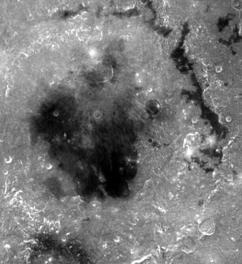 Mare Orientale straddles both the near and far side. The basin has the most nearly complete concentric ring structure of any basin in the west. The surrounding basin material is of the Lower Imbrian epoch, with the mare material being of the Upper Imbrian epoch. The outermost conspicuous ring is Cordillera, bounded inwardly by steep scarp or gentle lip and topped by some ridgelike massifs. The mare-like material to the northeast is Lacus Autumni. You can also make out the crater Maunder among the northern region of the mare. Off to the southeast of Maunder is Kopff. Montes Rooks lines the eastern edge of the mare.